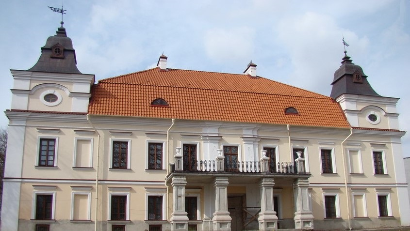 Palace of Nemcevichi Skoki Brest region